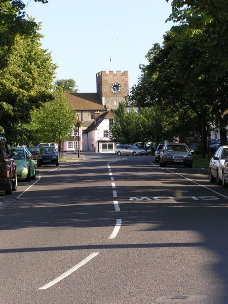 Picture of Alresford Broad Street.